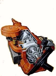 1974 GM Rotory engine